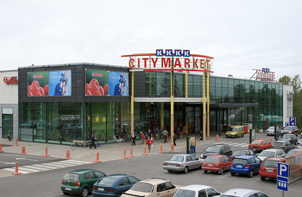 Citymarket in Lohja, Finland